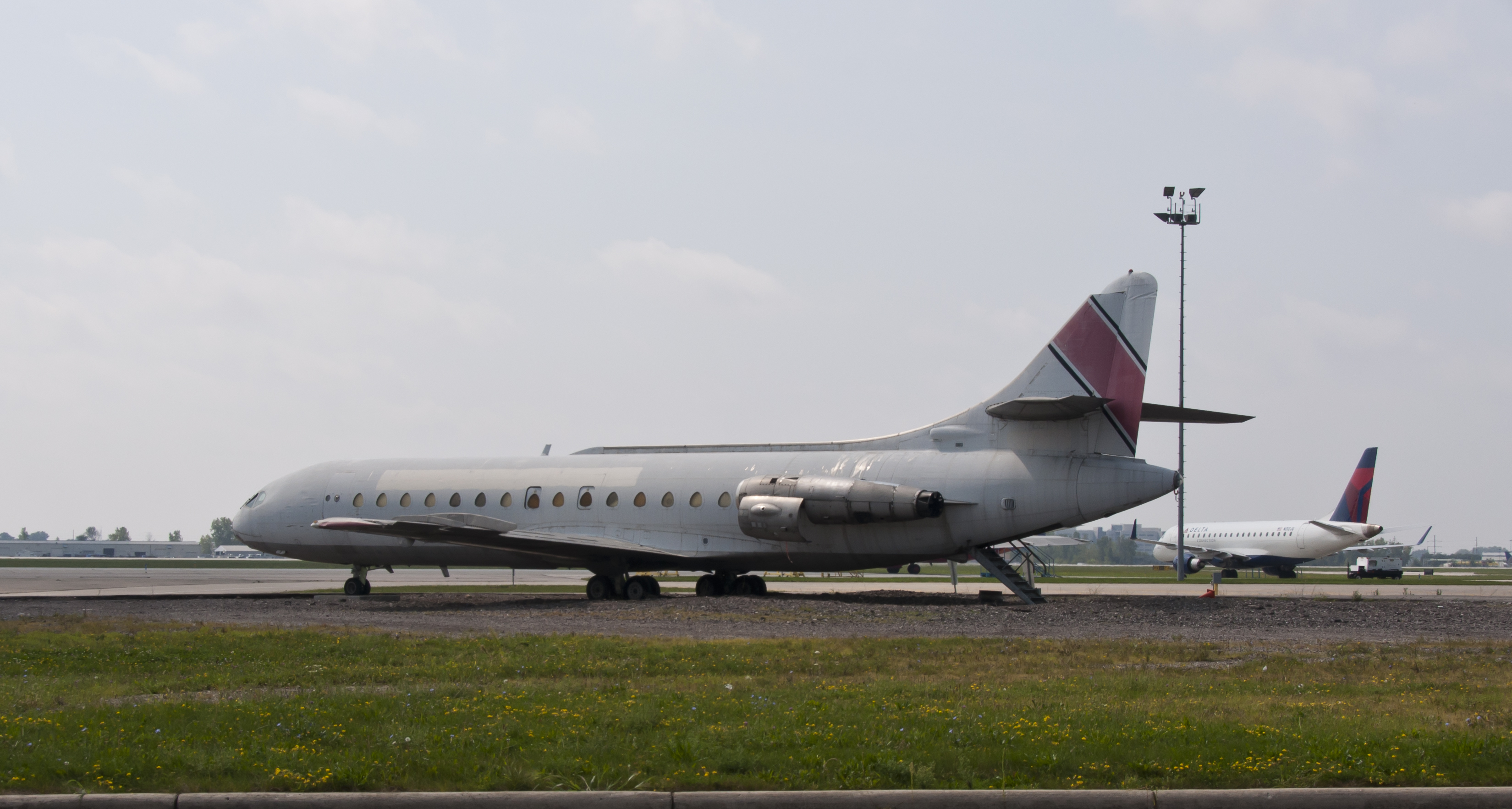 Airborne Express Sud SE-210 Caravelle VI-R, Tail Number:N901MW. Two Caravelles that once flew cargo for Airborne Express are now preserved in the USA. This one N901MW at Columbus, OH. The other, N902MW, at Windsor Locks, CT. The Sud SE-210 Caravelle VI-R was the first Caravelle with thrust reversers. The cockpit windows were made bigger with redesigned layout and more powerful brakes were introduced. It first flew on February 6, 1961, obtaining the FAA certificate on June 5 that same year. In total 56 were built.